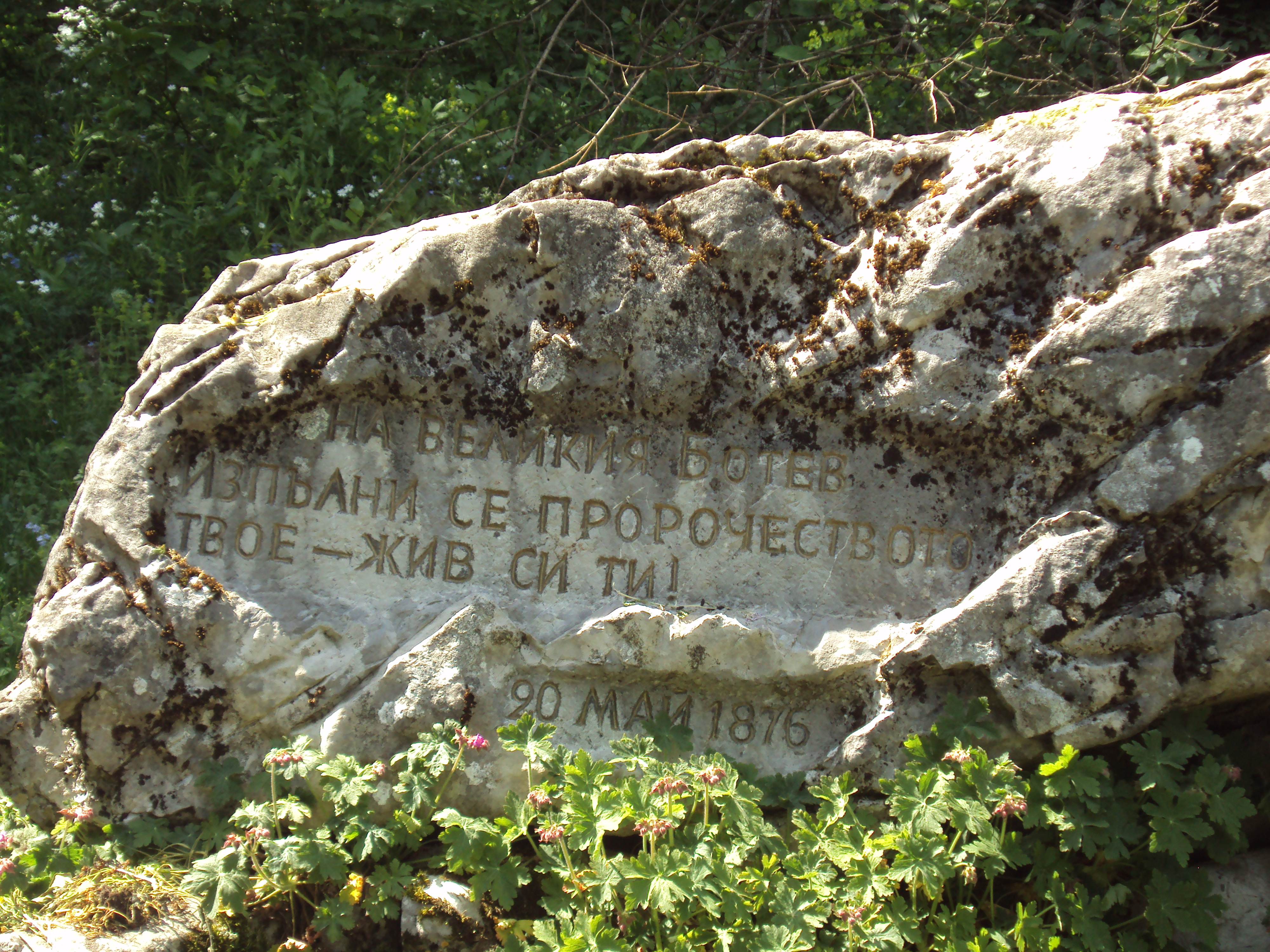 Death place of Hristo Botev, Okolchitza